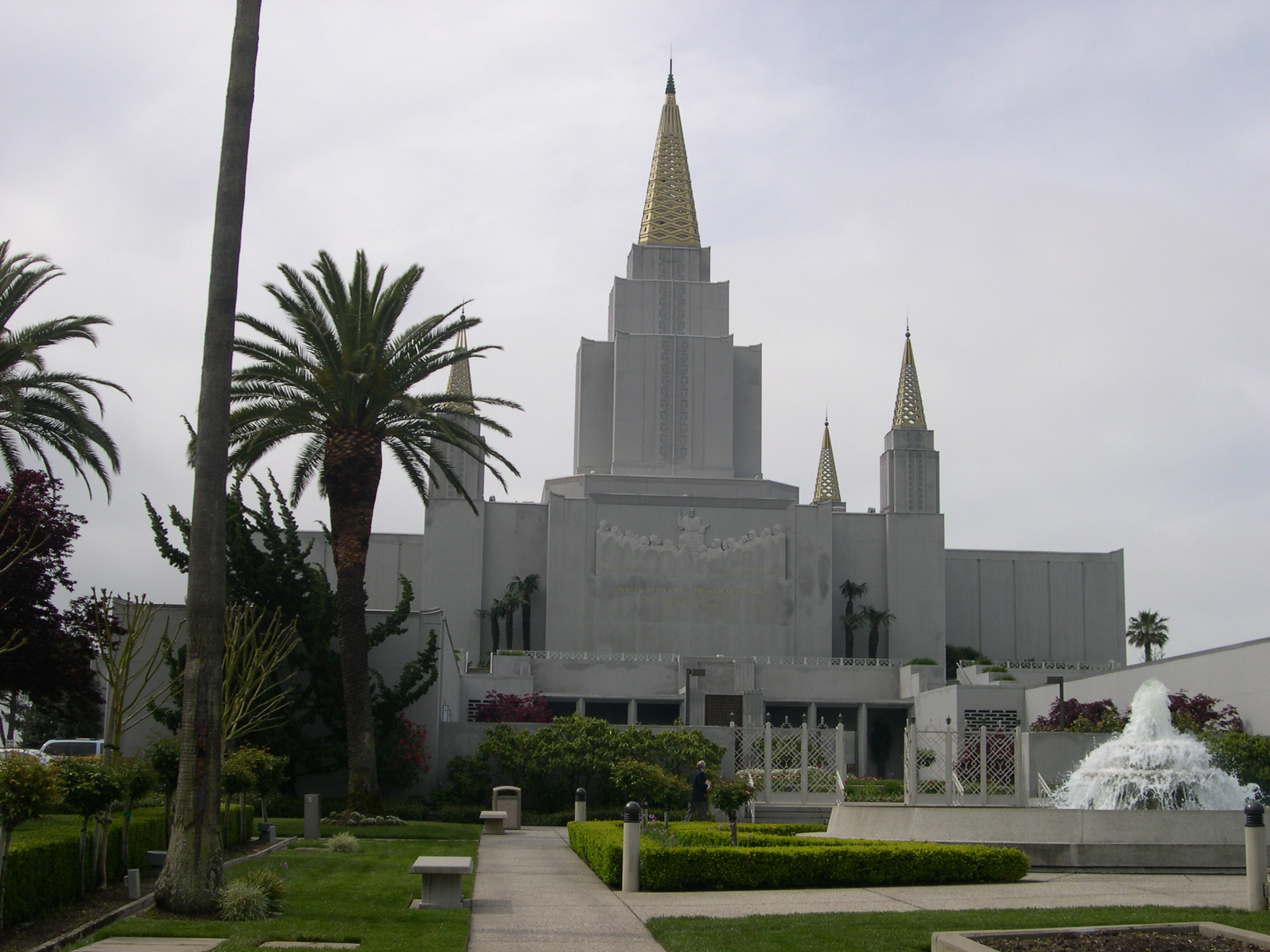 The front north side of the Oakland California Temple on Lincoln Avenue.